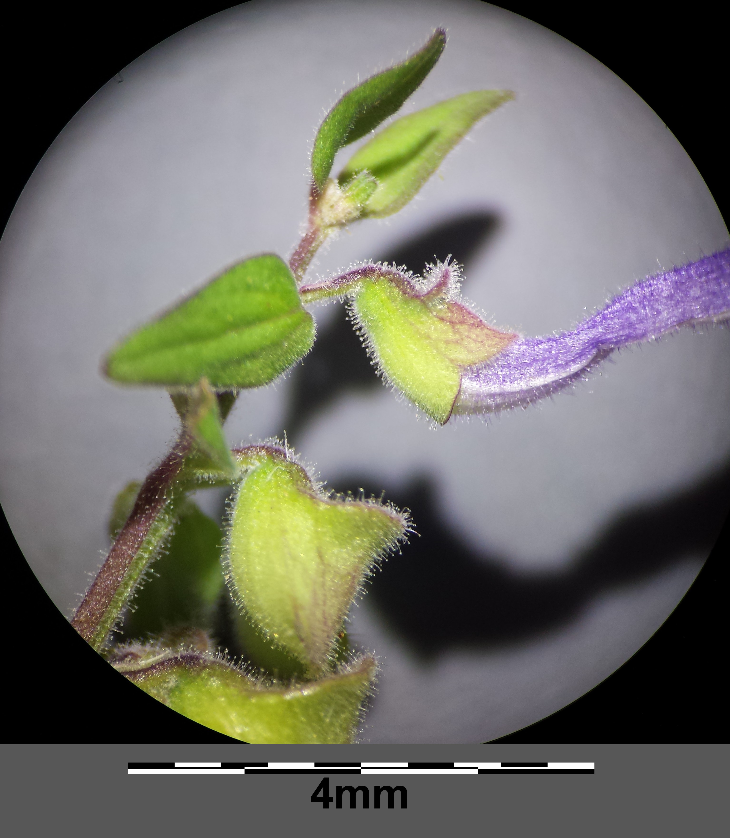 Inflorescence Taxonym: Scutellaria hastifolia ss Fischer et al. EfÖLS 2008 ISBN 978-3-85474-187-9 Location: Mitterluss near Zurndorf, district Neusiedl am See, Burgenland, Austria - ca. 130 m a.s.l. Habitat: wet meadows